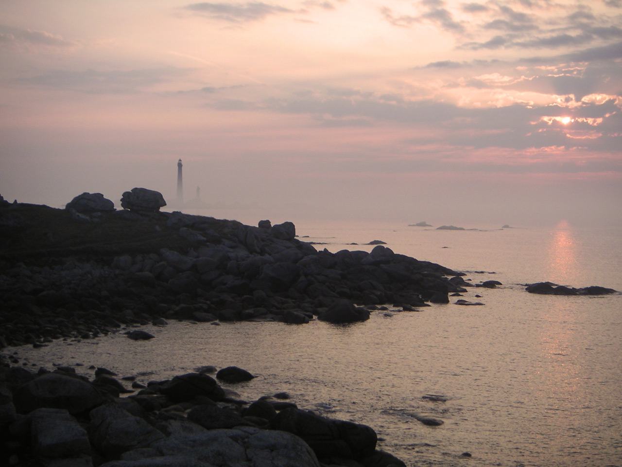 Sunset at Plouguerneau (about 25 kilometers northwards Brest)